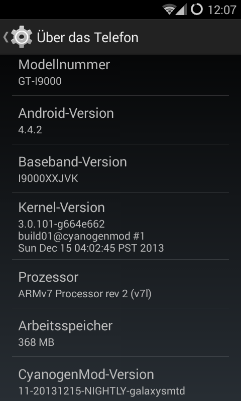 Samsung Galaxy S i9000 Cyanogen KitKat screenshot